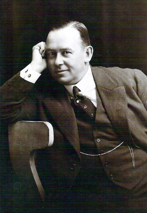 Karno photographed c.1918